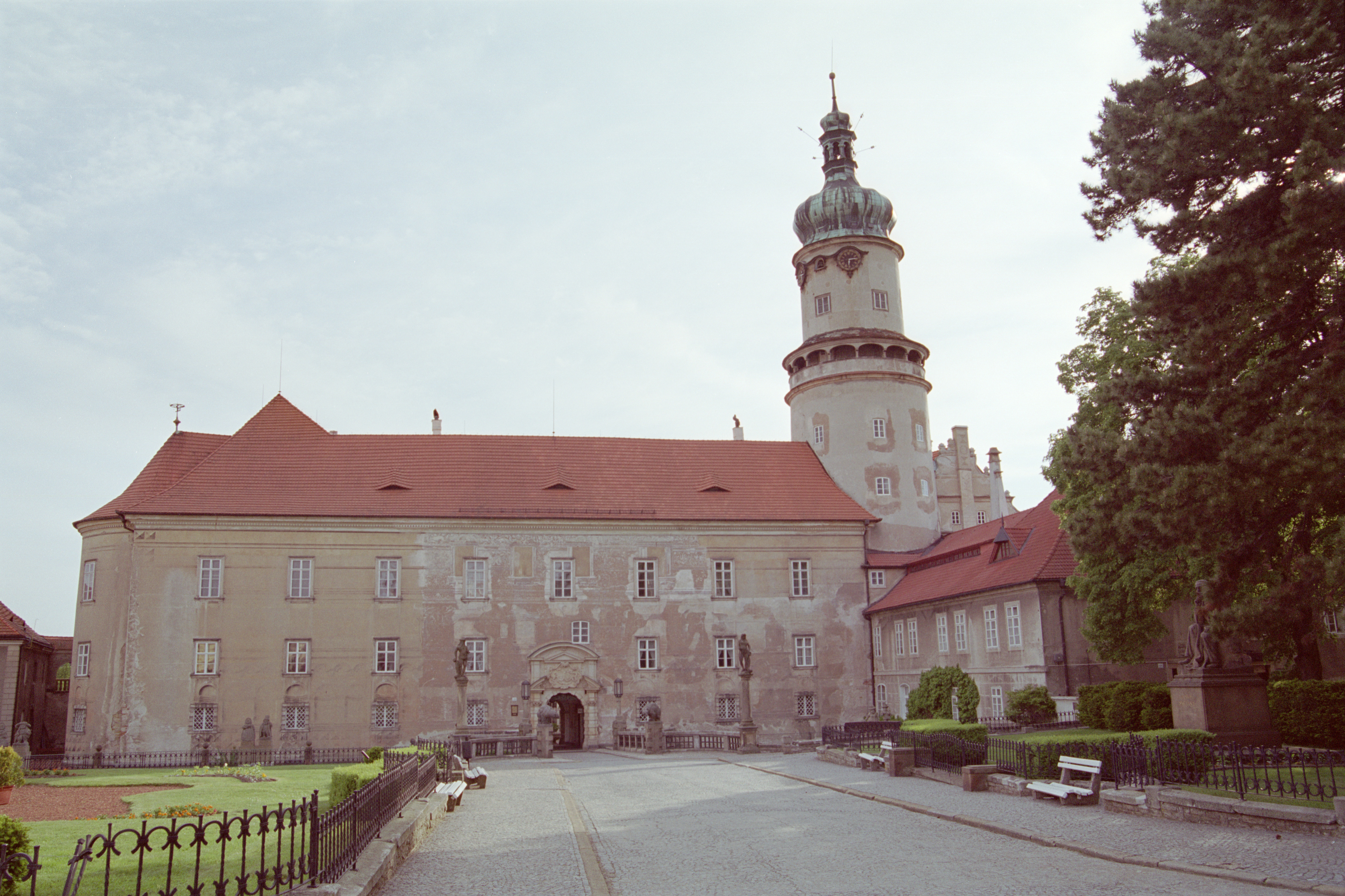 Castle Nové Město nad Metují in Czech Republic near the market place in the city Nové Město nad Metují picture taken by me in spring 2006